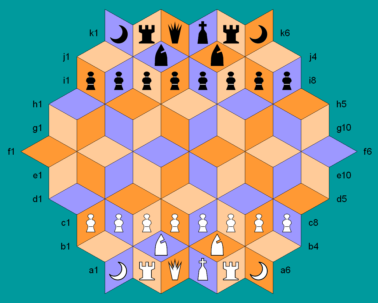 colors and notation system borrowed from Paletta's Chessvariants and Zillions-of-Games graphic; chess piece icons are free-use Utrecht chess font; wizard icon (sorcerer) is User:NikNaks93 deriviative work; put together in MS PAINT.